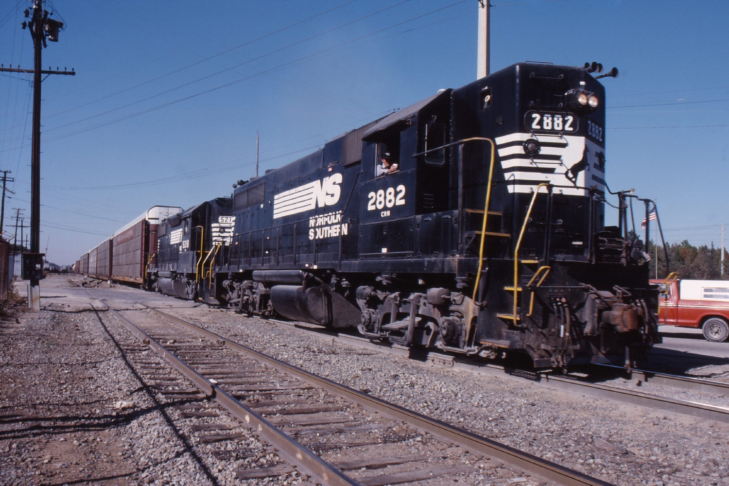 Diesel 2882 Norfolk Southern US Rail freight Train